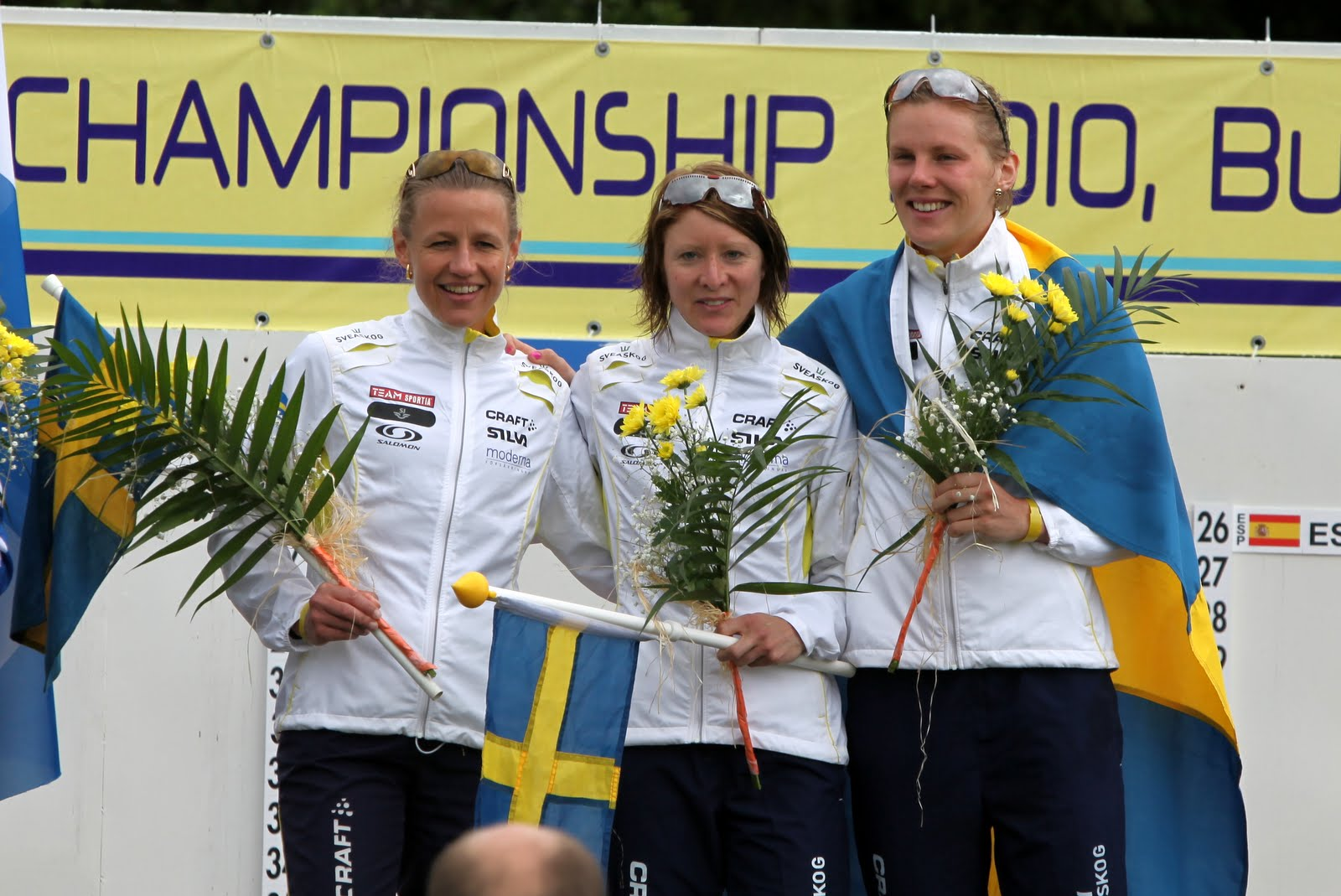 Helena Jansson, Lena Eliasson, Karolina Arewång-Höjsgaard at European Orienteering Championships 2010